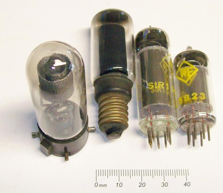 Voltage-regulator tubes